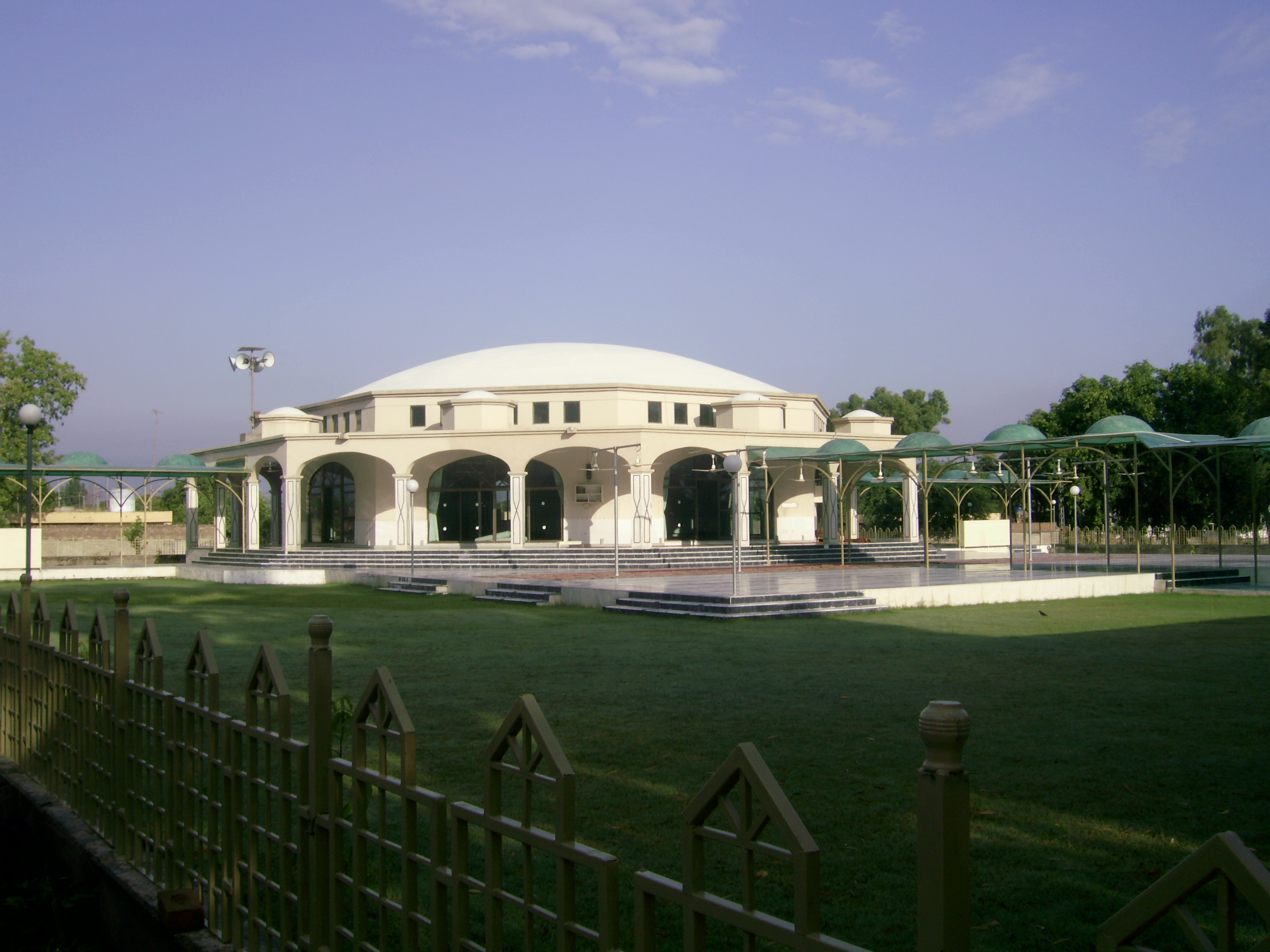 The Central Mosque at the University of Engineering and Technology Taxila